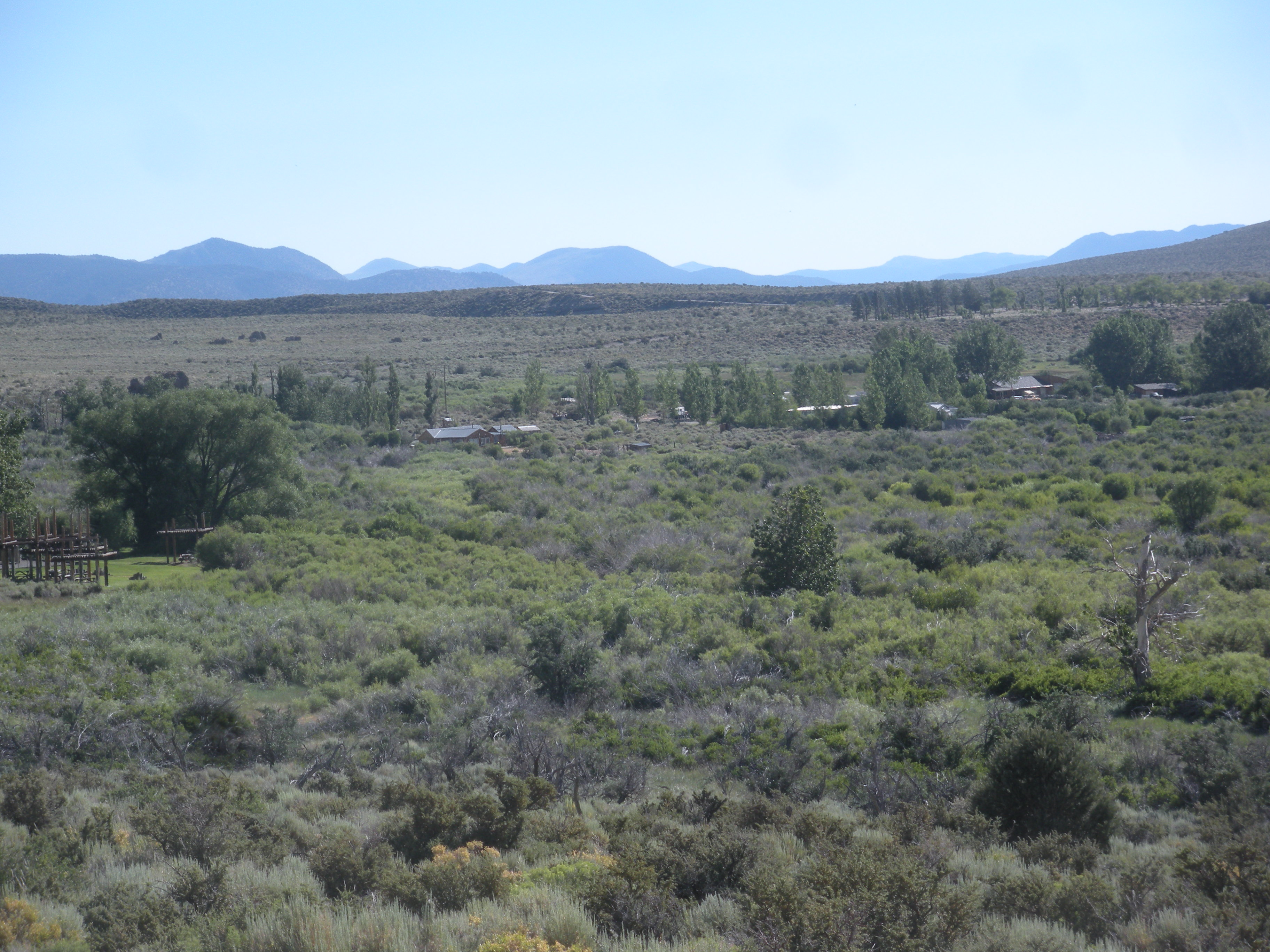 This is Mono City as seen from Cemetery Road. Originally posted to my Flickr